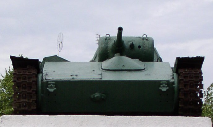 Tank T-70 – part of monument to lost in Great Patriotic War. Yezyaryshcha, Belarus.